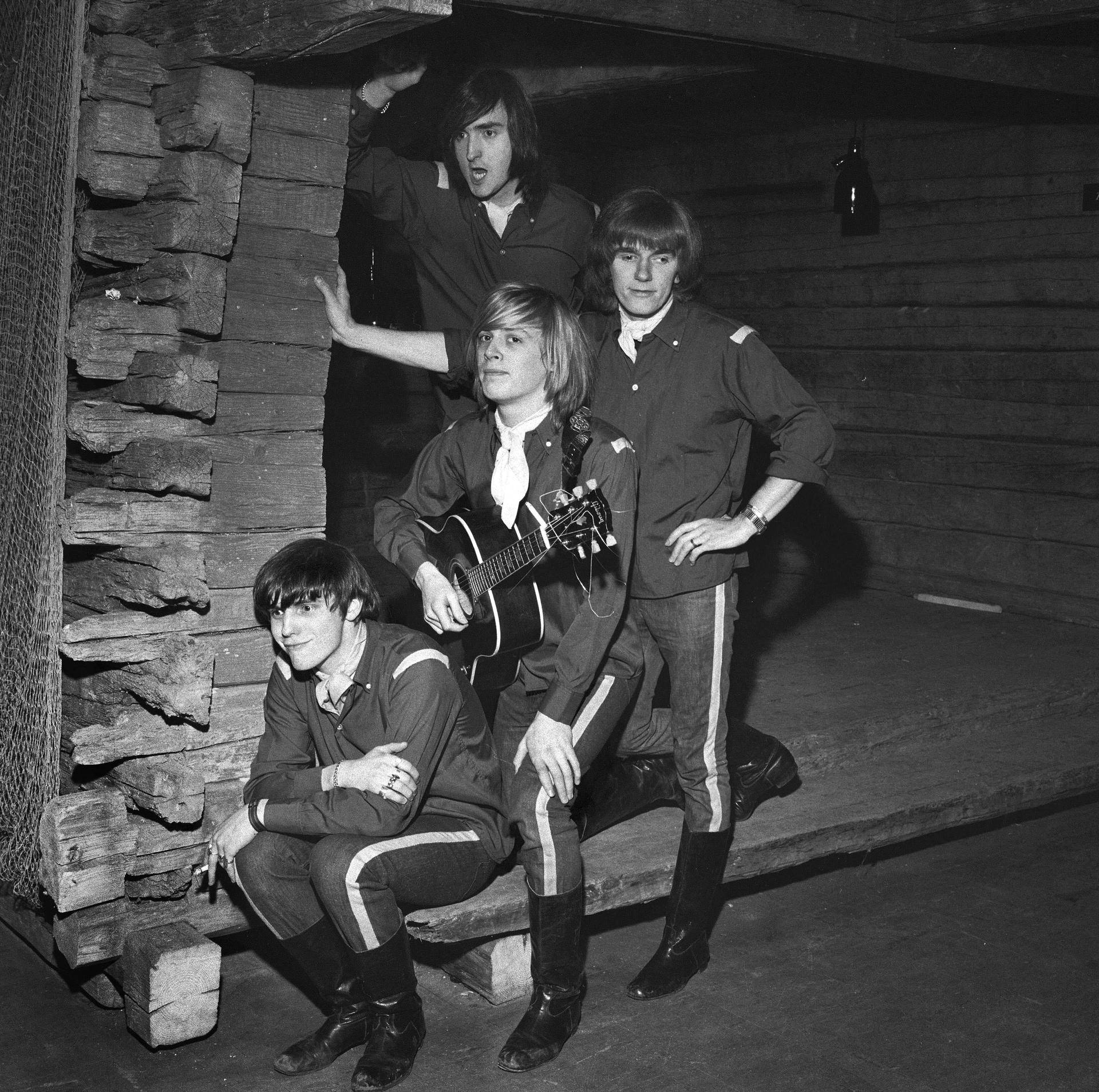 Photograph of the U.K. rock group The Renegades during their visit to Finland.